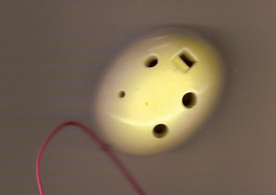 A 4-hole English-system ocarina made of ceramic.